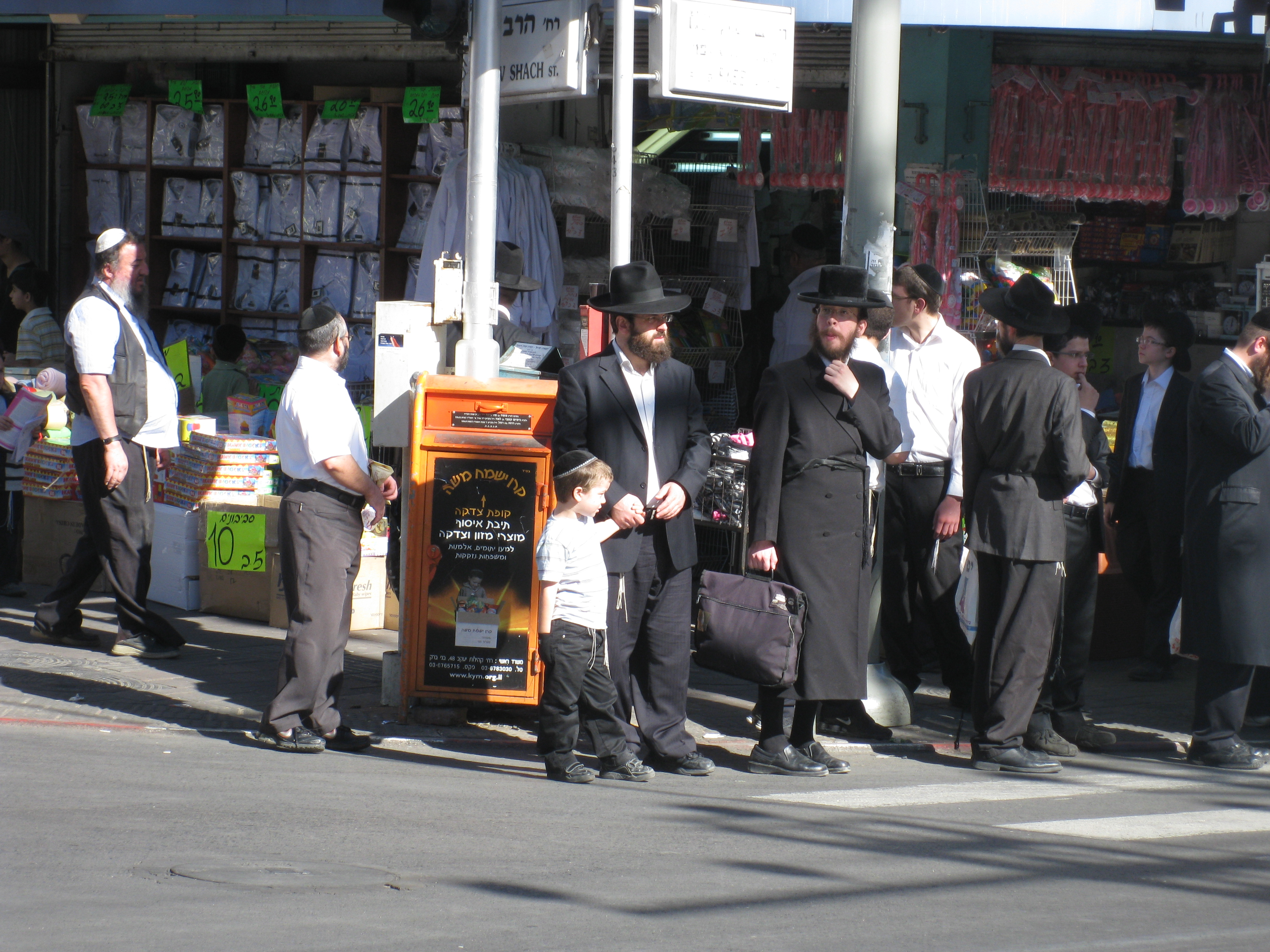 Rabbi Akiva Street, Bnei Brak